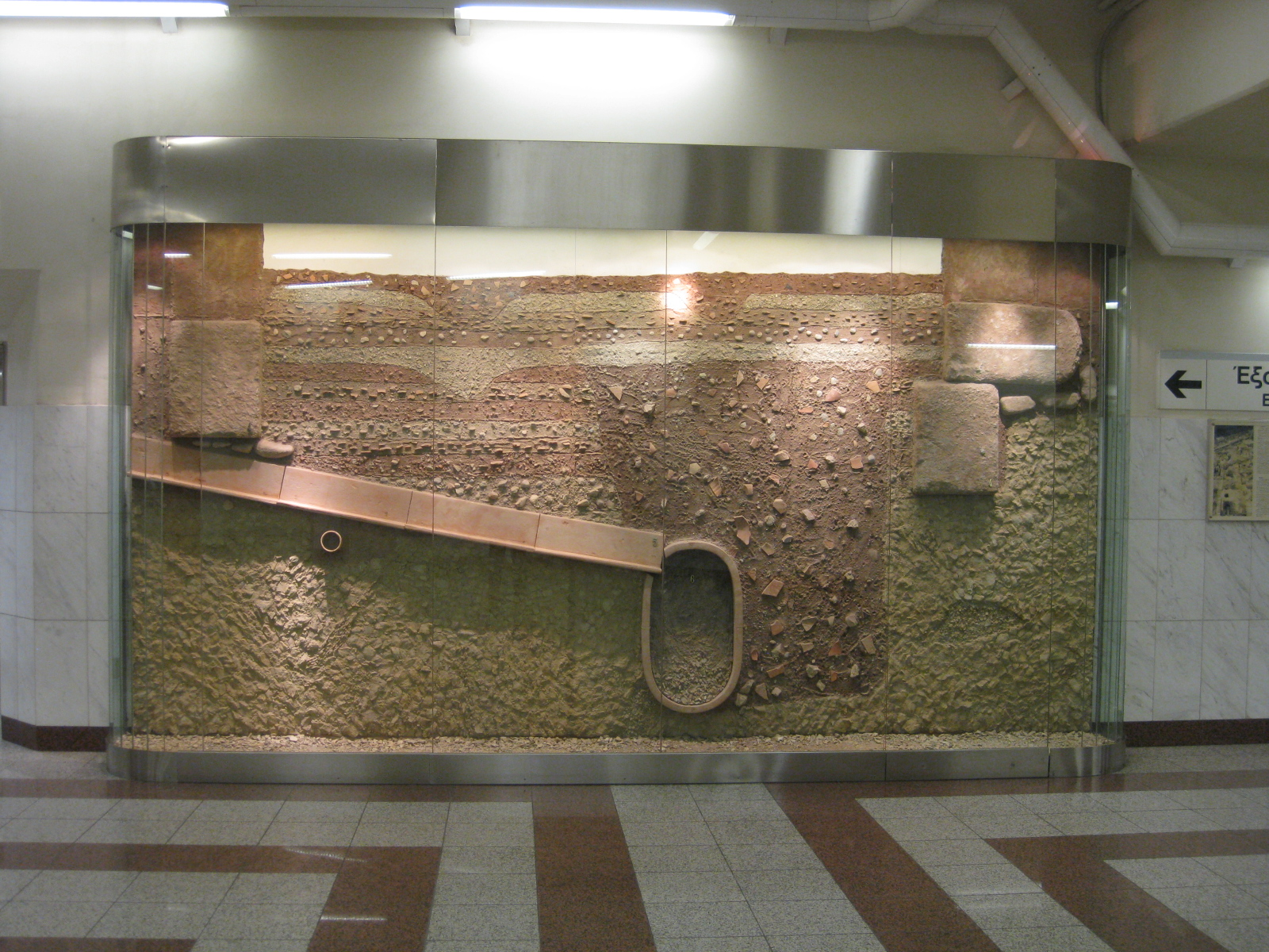 Acropolis Metro Station, Athens